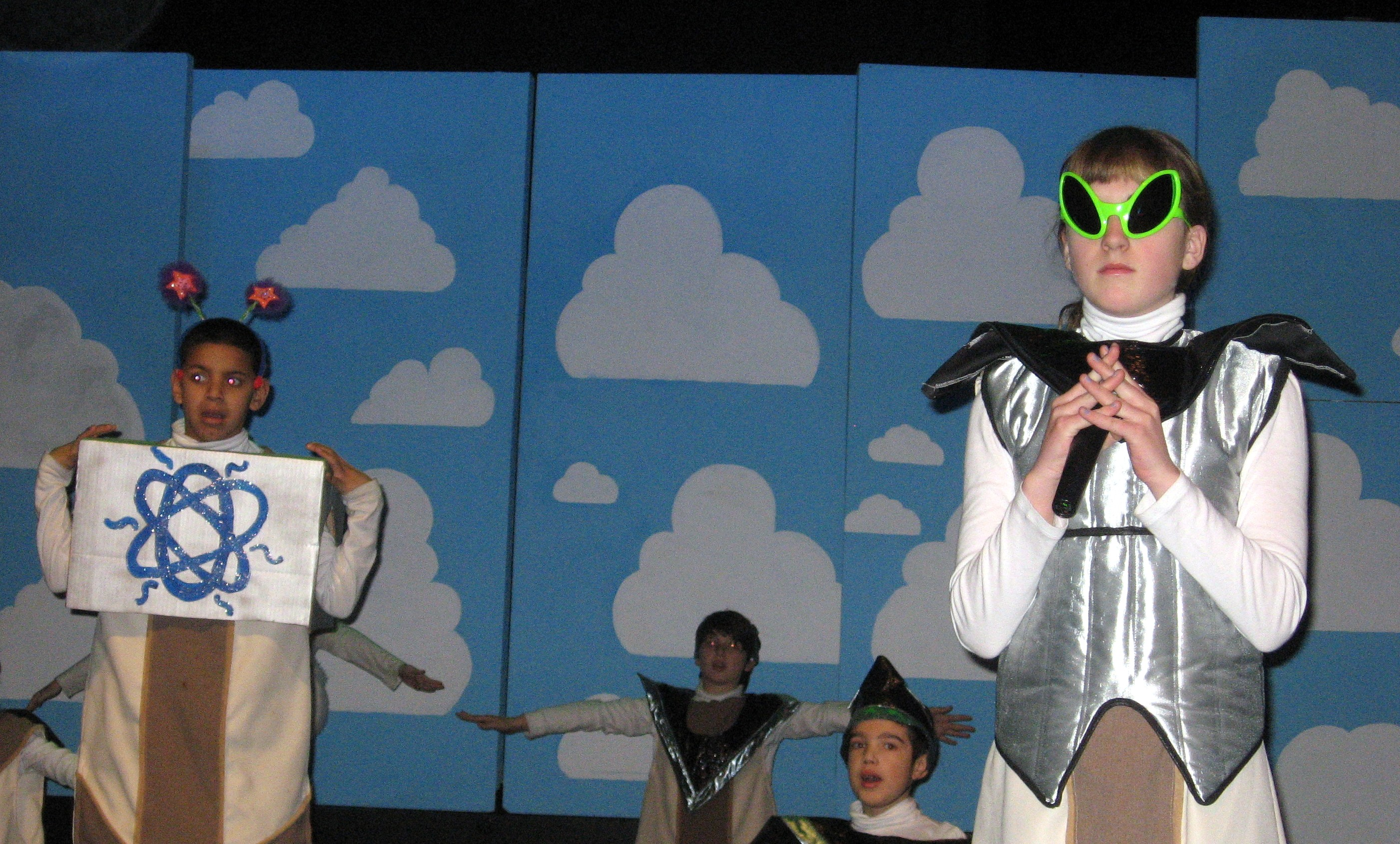 A Very Merry Unauthorized Children's Scientology Pageant, scene where characters relate the play's version of the Xenu story, during the song "The Way That It Began". The Xenu character is at foreground (right).